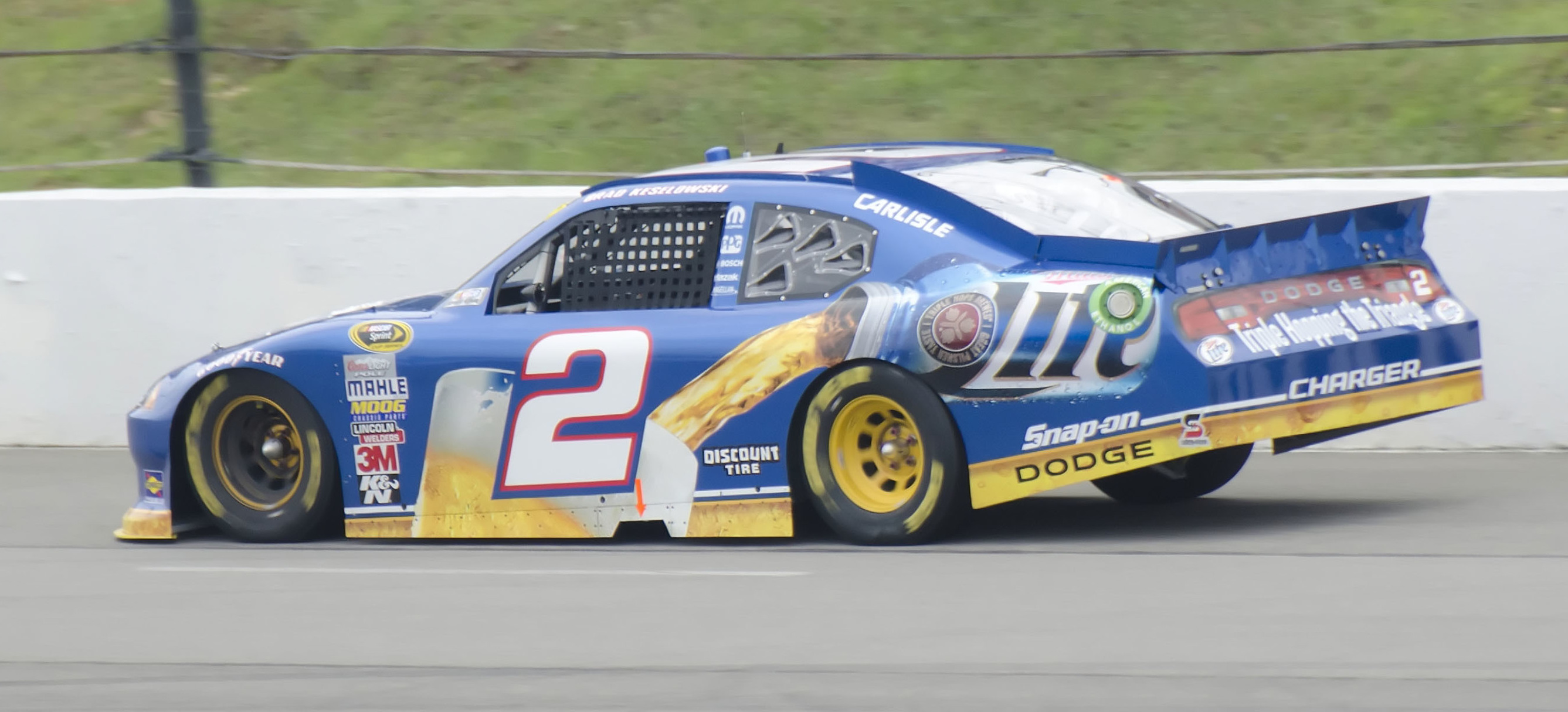 Brad Keselowski - the eventual winner of the 2011 Good Sam RV Insurance 500 at Pocono Raceway.